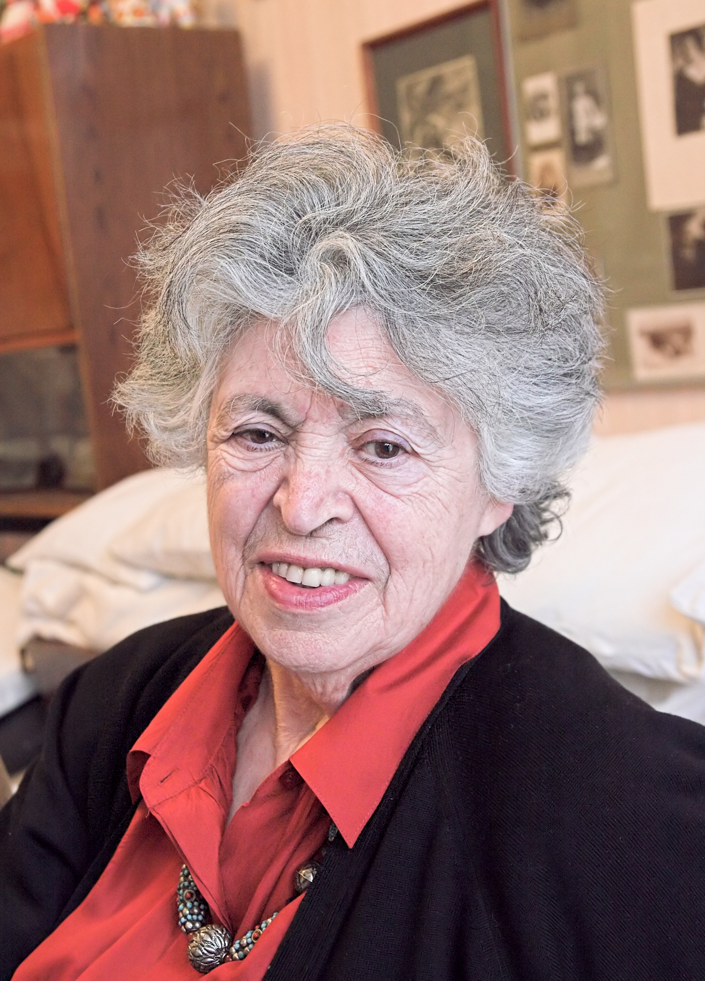 Russian translator Nina Demurova. In 1967 she made a perfect translation of Lewis Carroll`s «Alice`s Adventures in Wonderland» that is more than popular in Russia.